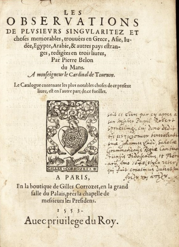 Pierre Belon, Observations, title page. Getty Research Institute copy